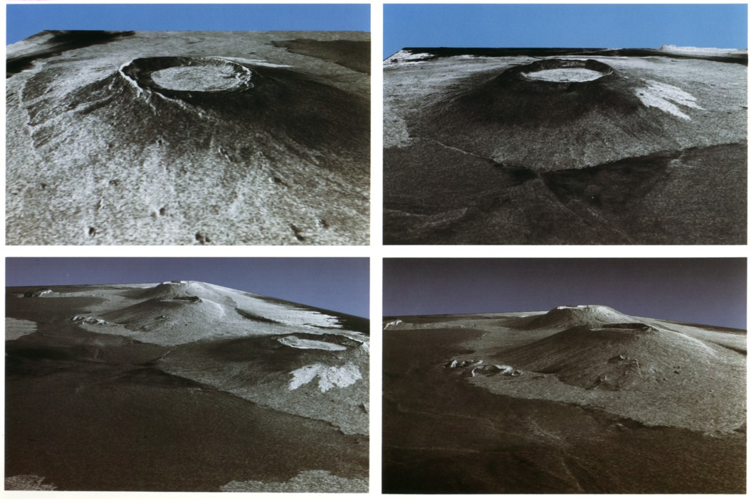 (Top left: P-43914; top right: P-43913; bottom left: P-43938; bottom right: P-43939) These four images show varying three-dimensional perspectives of Isla Isabela — one of the chain of Galapagos Islands located in the eastern Pacific Ocean about 1,200 kilometers (750 miles) off the western coast of Ecuador in South America. The views were constructed by overlaying radar images from SIR-C/X-SAR on digital elevation maps produced by TOPSAR, a prototype airborne interferometric radar that produces simultaneous image and elevation data. The SIR-C/X-SAR images were obtained on April 10, 1994, during the 24th orbit of the space shuttle Endeavour (STS-59). Vertical exaggeration, about 1.87 times the actual relief, is used by scientists to detect relationships between structure (faults and fractures) and topography. The Isla Isabela images are centered at about 0.5 degree south latitude and 91 degrees west longitude and cover an area of 75 by 60 kilometers (47 by 37 miles). The Galapagos Islands have six active volcanoes — similar to the volcanoes found in the Hawaiian Islands — and reflect the volcanic processes that occur where the ocean floor is created. The images show varying views of Alcedo (top left and right); Wolf, Darwin, and Alcedo (bottom left, from back); and Wolf and Darwin (bottom right, from back). Since Charles Darwin's visit to the area in 1835, there have been more than 60 recorded eruptions on the Galapagos volcanoes. The images show the rougher lava flows as bright features, while ash deposits and smooth pahoehoe lava flows appear dark.